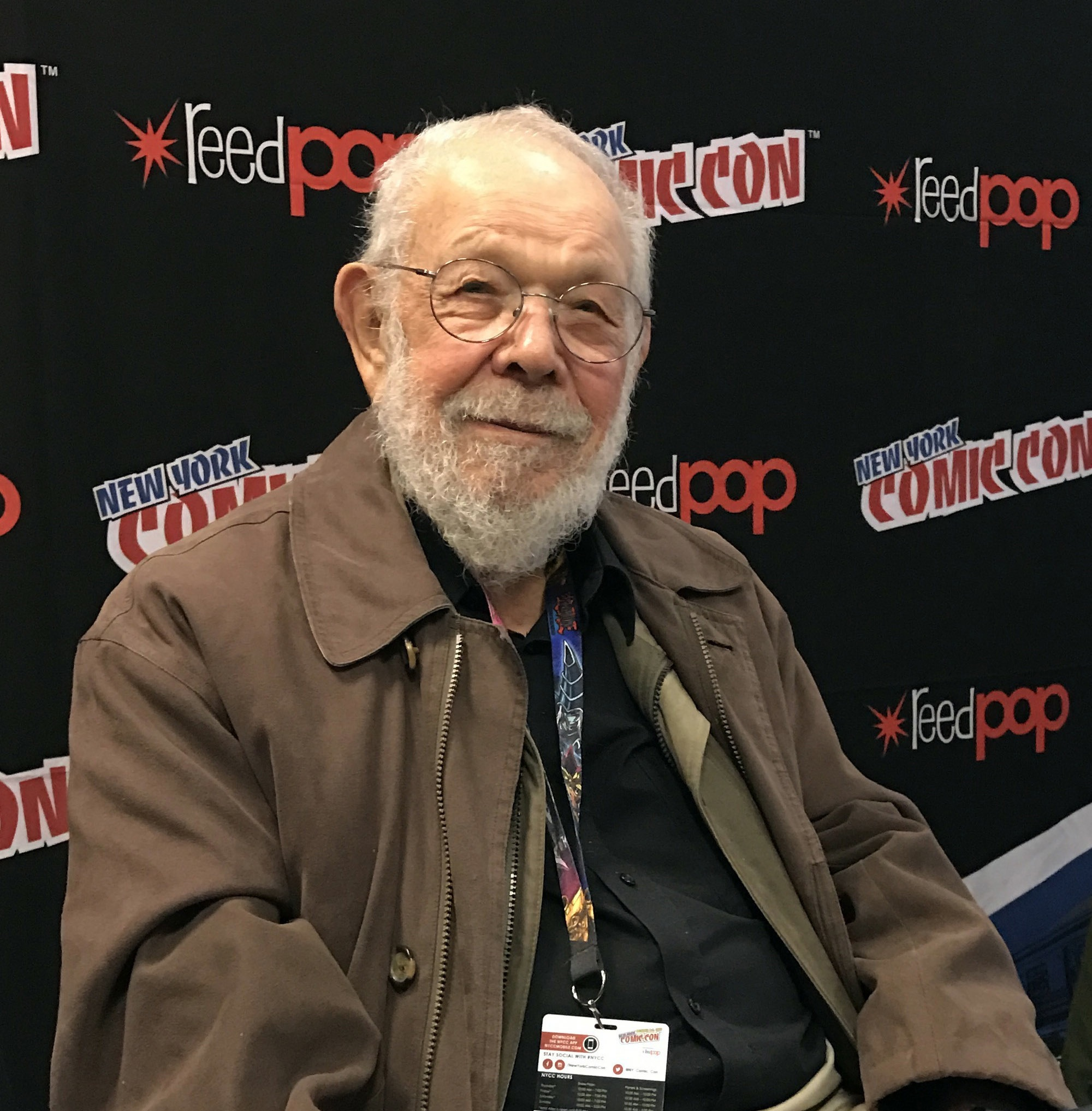 Cartoonist Al Jaffee following a discussion panel dedicated to Trump magazine on Sunday, October 9, 2016 at the Jacob K. Javits Convention Center in Manhattan, Day 4 of the 2016 New York Comic Con.. This photo was created by Luigi Novi. It is not in the public domain, and use of this file outside of the licensing terms is a copyright violation.